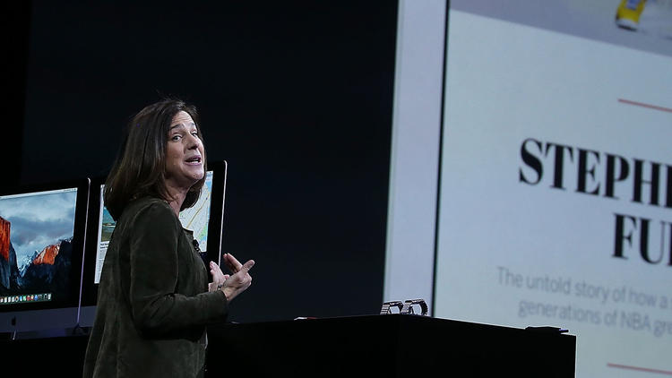 Prescott speaking at WWDC (2015)